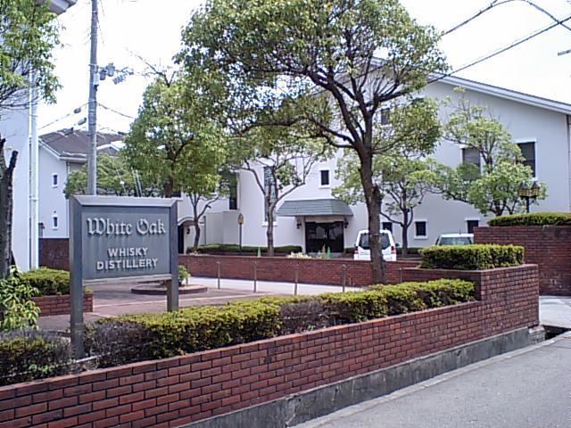 The office building of the White Oak whisky distillery in Akashi, Hyogo Prefecture, Japan.